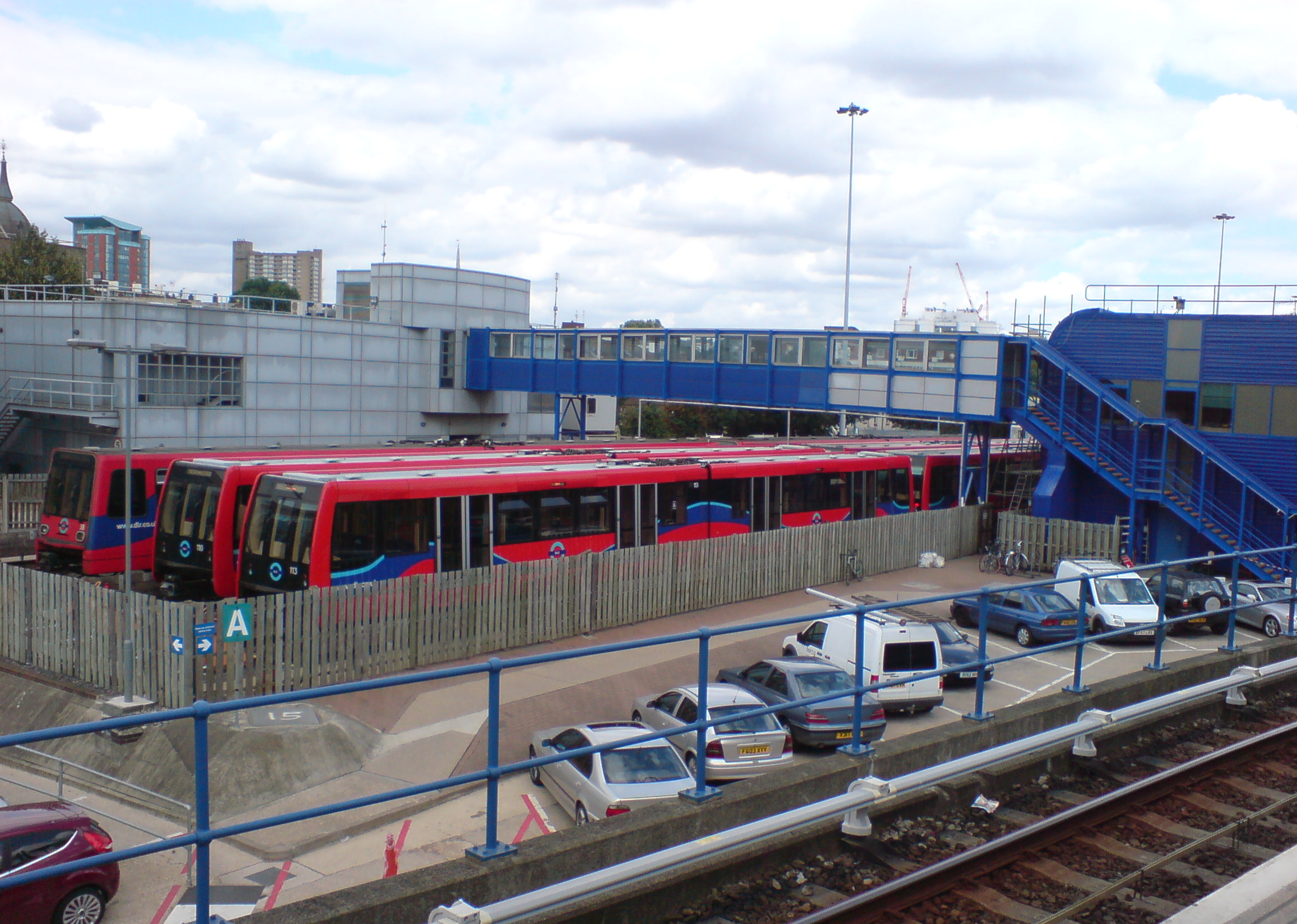 a B2007 DLR Rolling stock next to a B92 rolling Stock at Poplar DLR depot